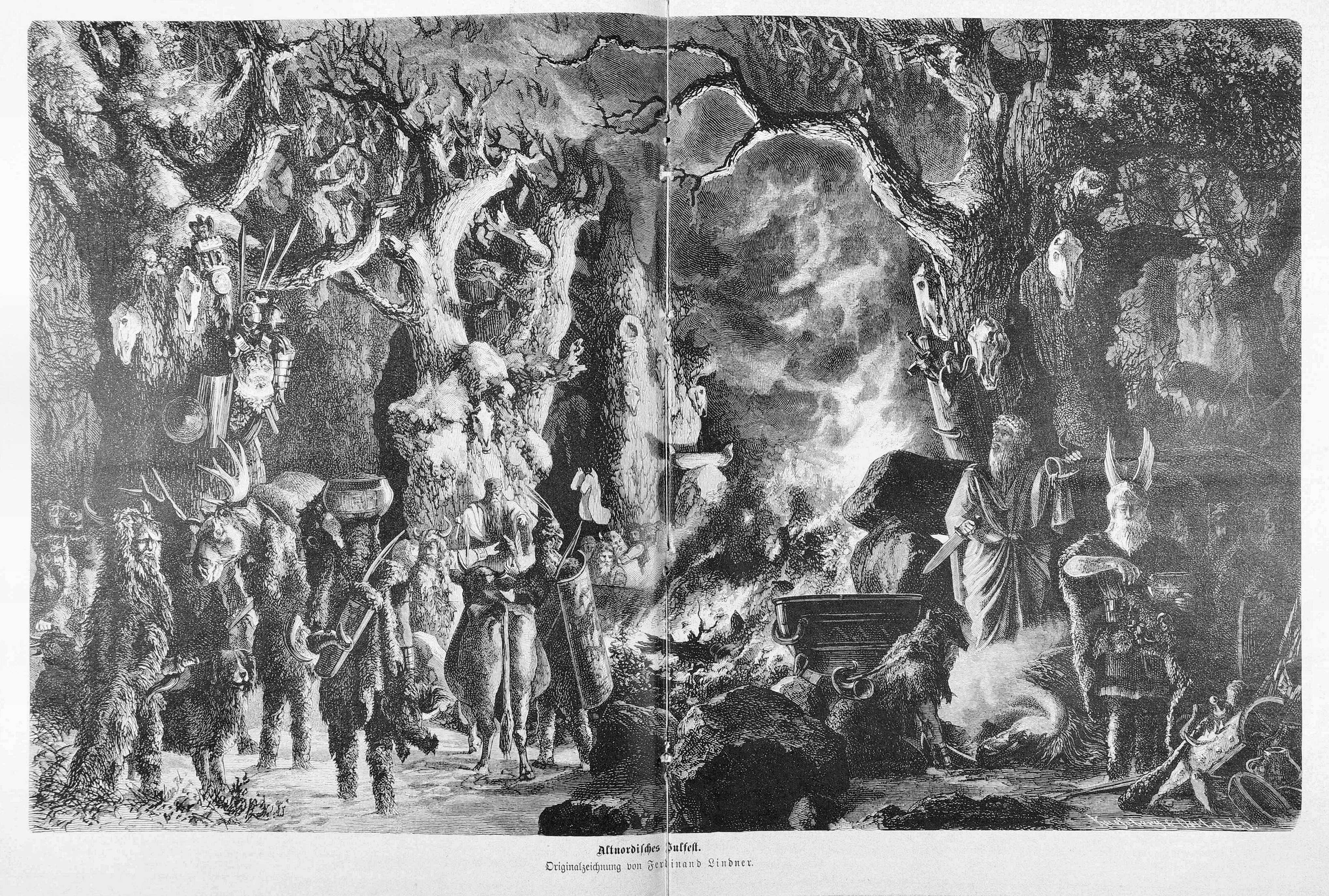 caption: "Altnordisches Julfest. Originalzeichnung von Ferdinand Lindner."